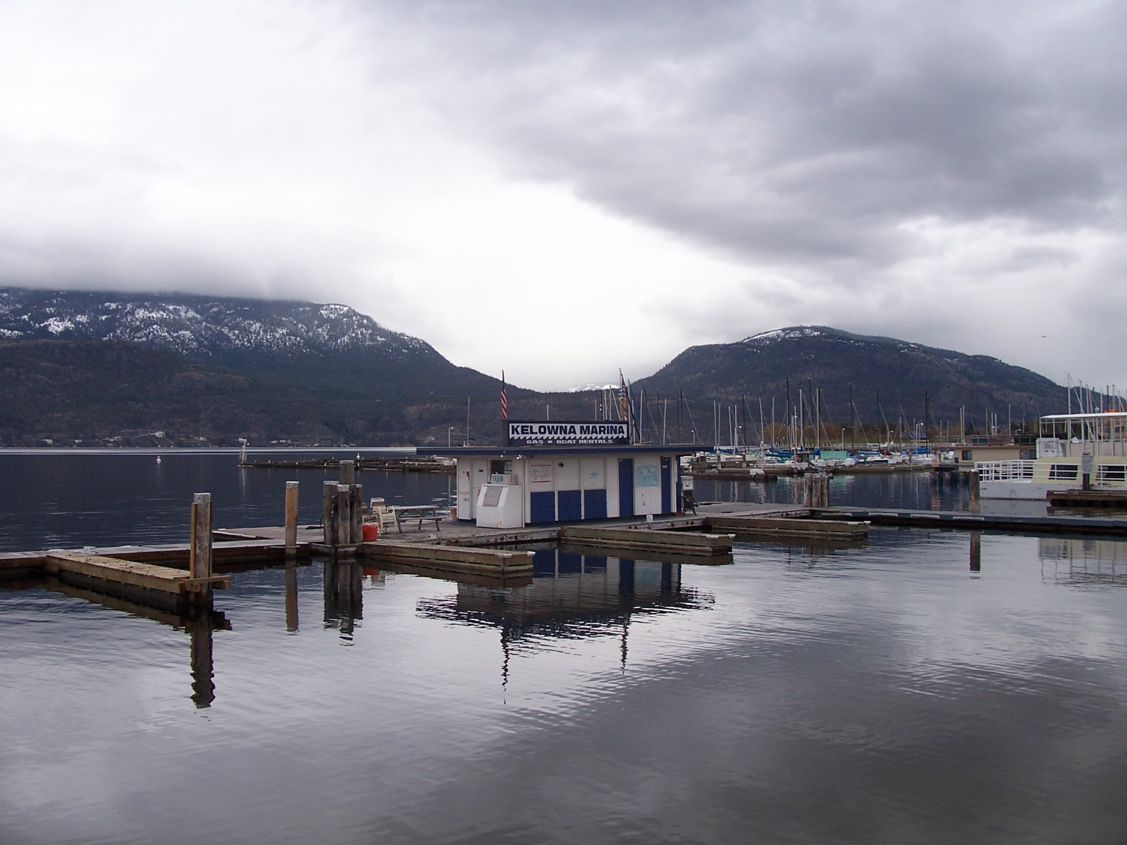 A photo take in Kelowna, B.C.